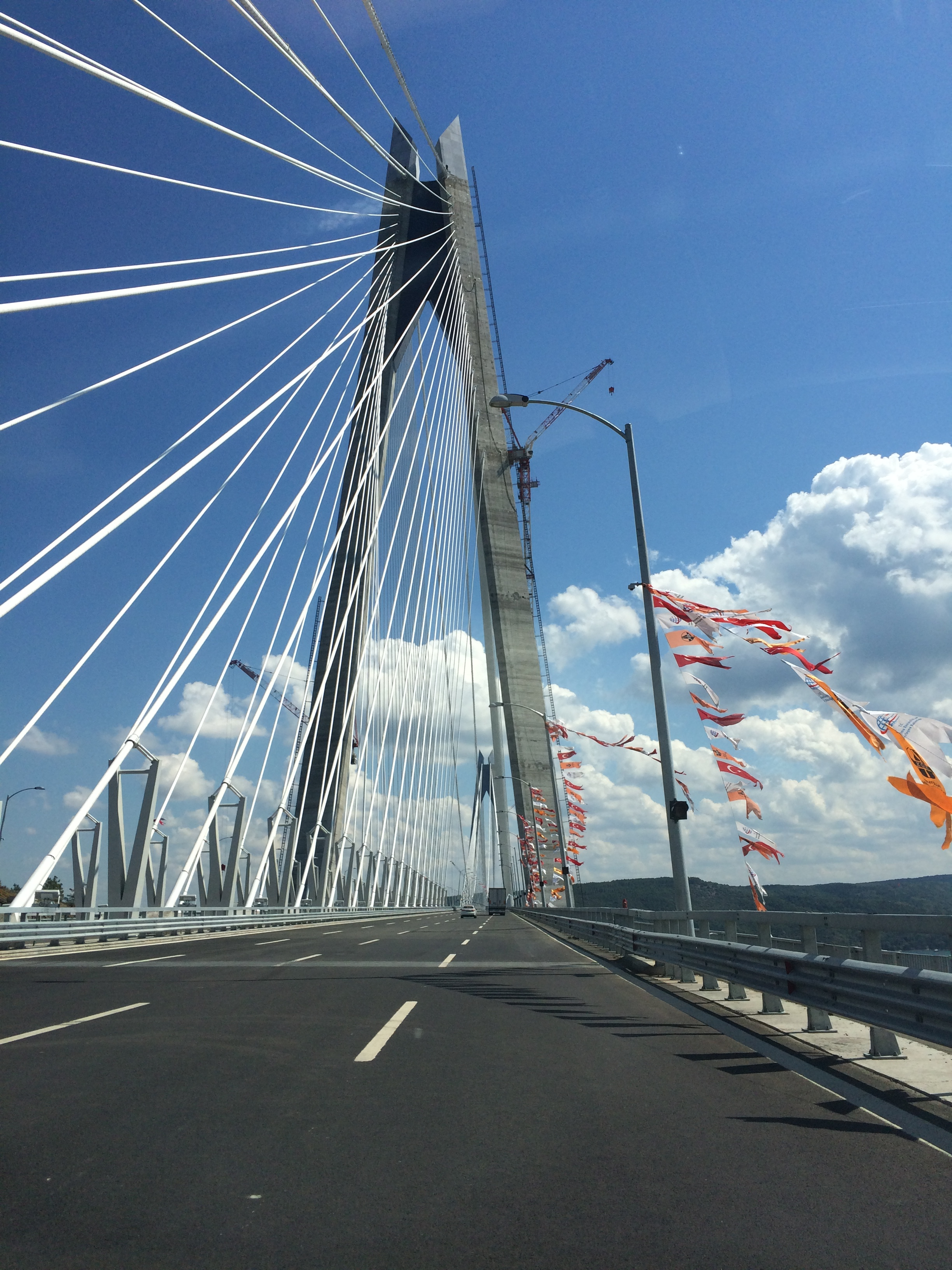 Yavuz Sultan Selim Bridge, Garipçe leg first, Poyrazköy leg next